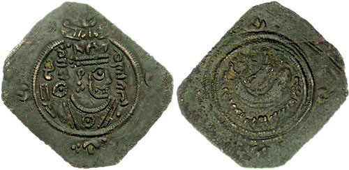 Coin of Farrokhan or Farrukhan aka Shahrbaraz, Sasanian ruler, son of Ardashir from House of Varaz. Became king on 27th of April and was murdered 9th or 17th of June, 630